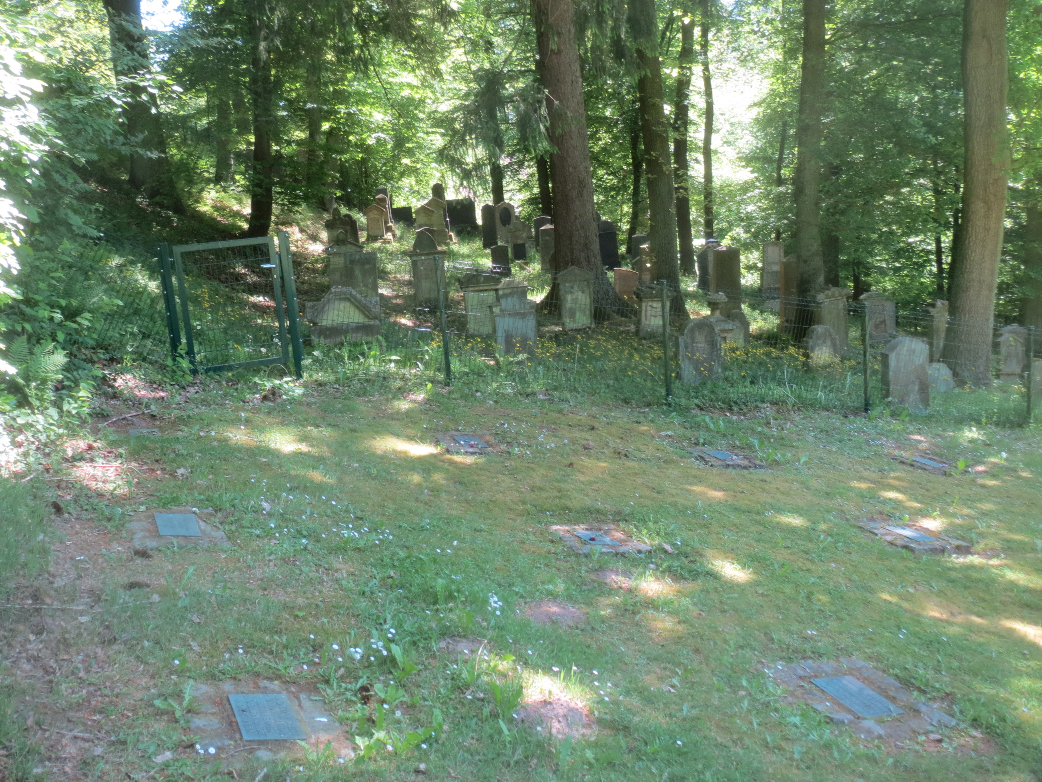 Jewish cemetery and graves of Soviet prisoners of war, Herleshausen 3